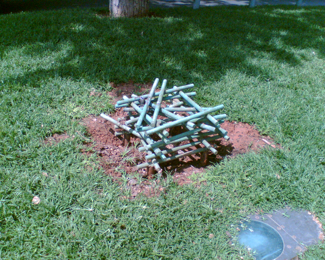 Remains of "Women with rungs of a ladder by Ofra Zimbalista", after it was stolen.